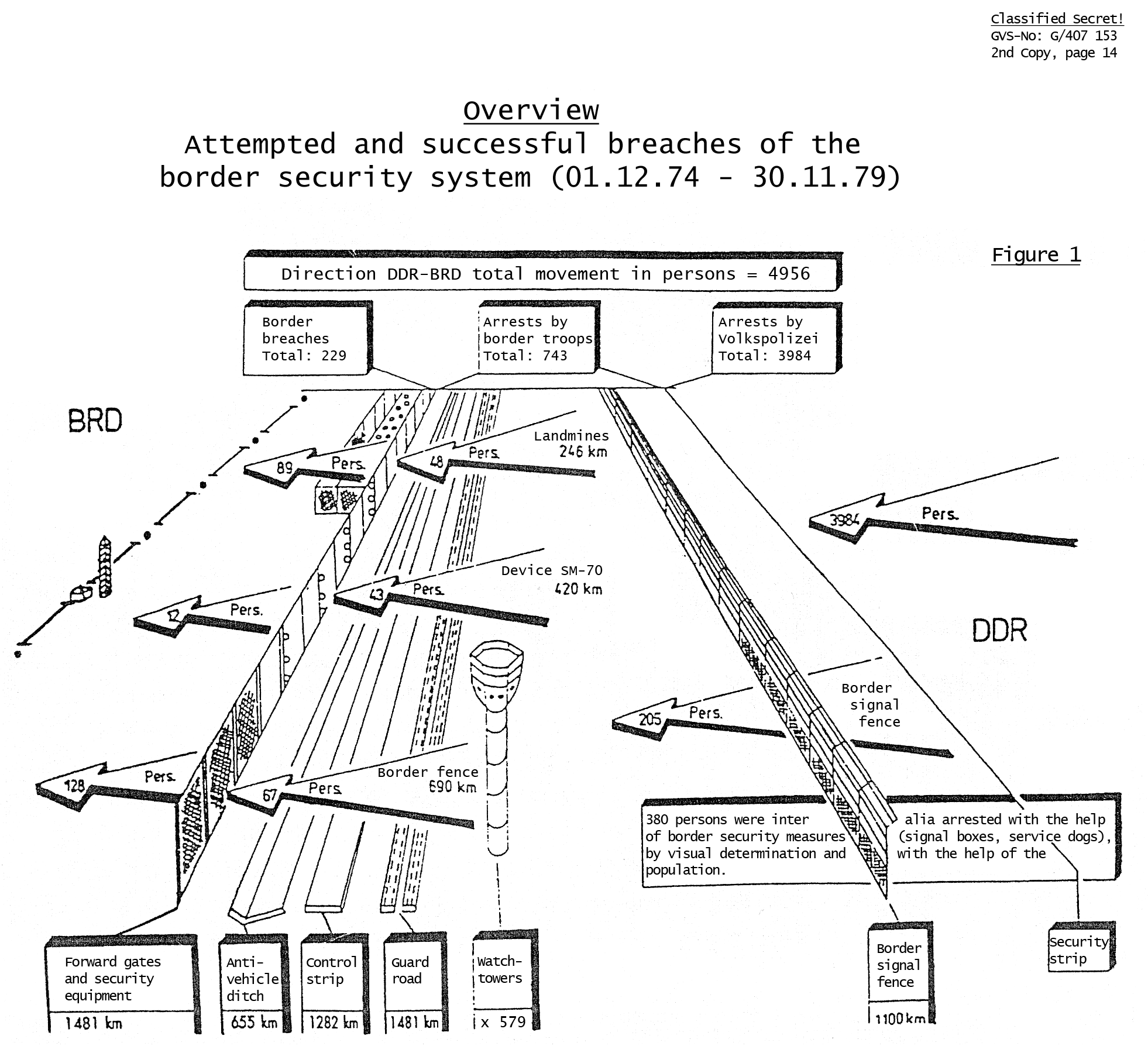 Overview diagram of successful and attempted breaches of the inner German border, 01.12.74 - 30.11.79. (English translation of text.)